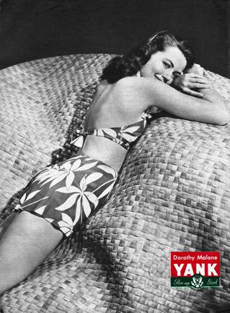 Pin-up photo of Dorothy Malone for the Apr. 13, 1945 issue of Yank, the Army Weekly, a weekly U.S. Army magazine fully staffed by enlisted men.